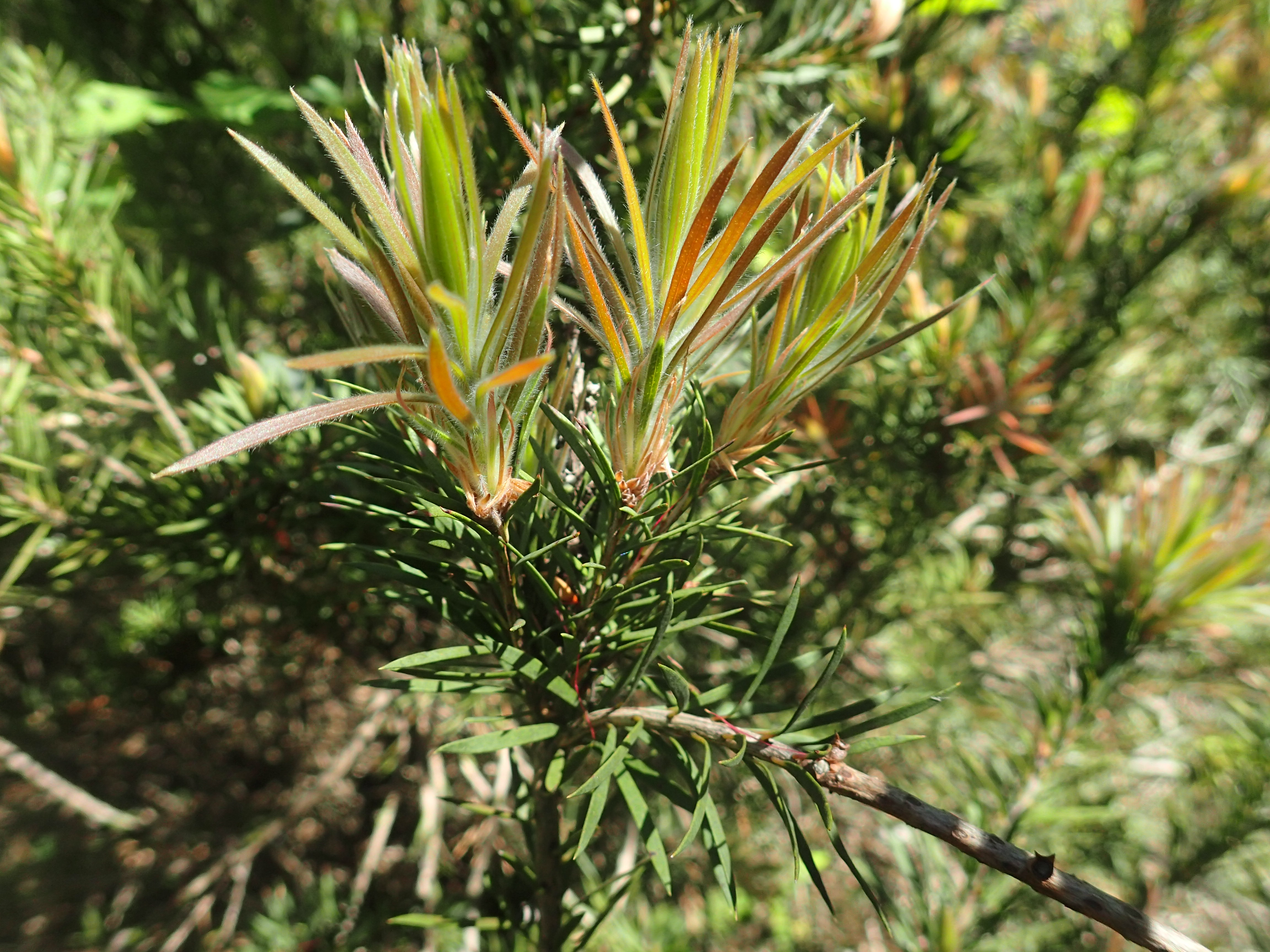 Melaleuca subulata habit in the ANBG